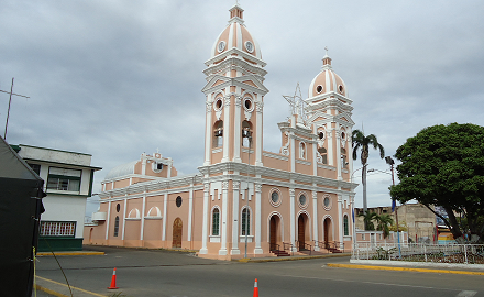 Cathedral of Our Lady of the Rosary of Cabimas. See of the Roman Catholic Diocese of Cabimas. Its located on the corner of Independencia street with Miranda street in Cabimas, Zulia, Venezuela. The church was built in 1829 by initiative of Mrs Juana Villazmil and remodeled to its current form in 1965. At the right corner a Cabimas tree is visible, the city is named after the tree. To the right of the church you can see the parsonage, and to the left of the church you can see the see of the Carmen Herrera civil parish and Cabimas postal service headquarters with a cross on the roof.